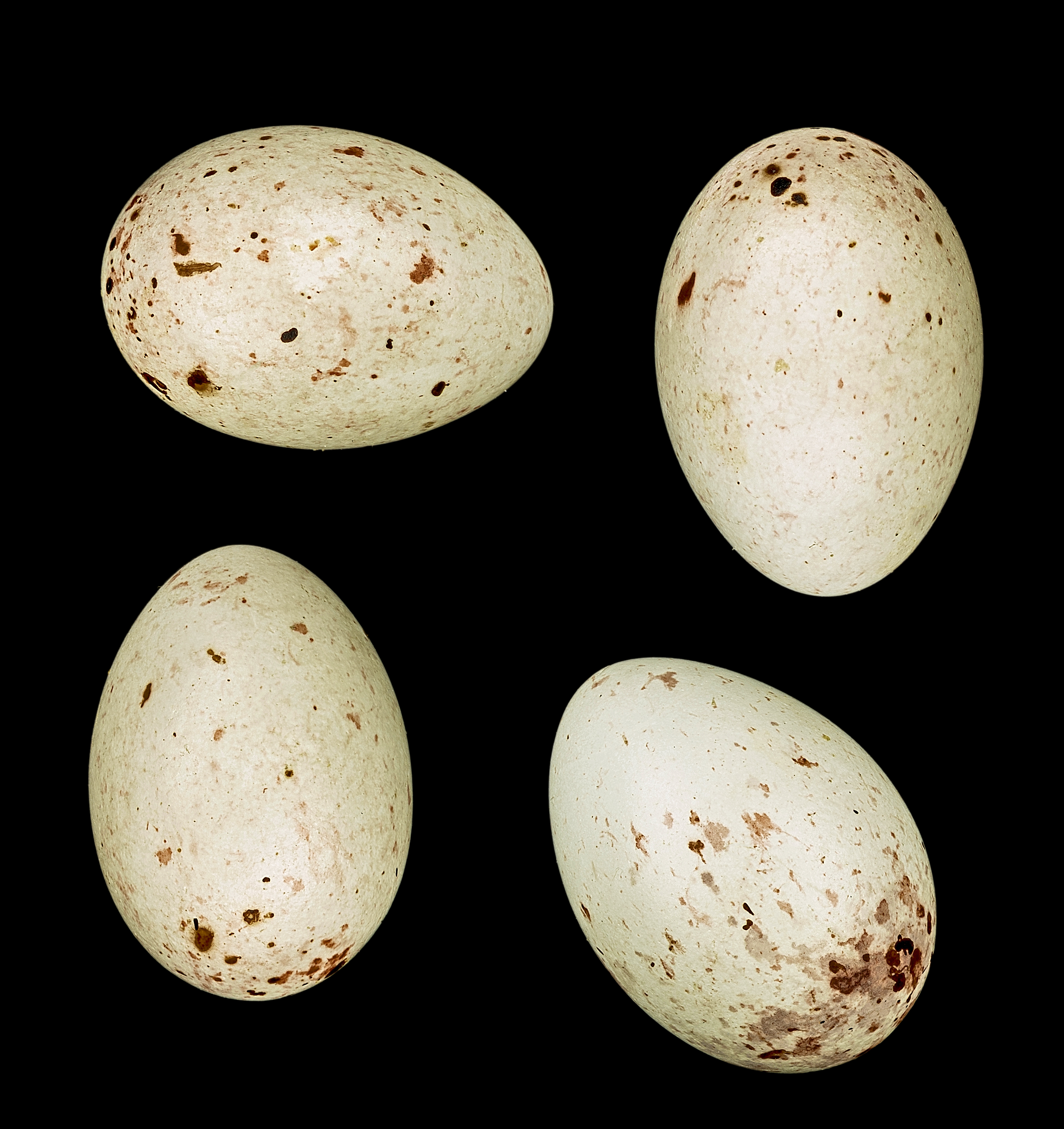 Egg of European Greenfinch. Collection of Jacques Perrin de Brichambaut.